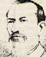 Francisco_Jiménez_Cortés